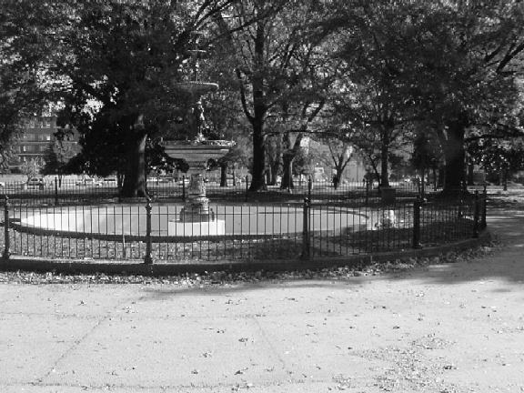 looking east from Monroe Park fountain.